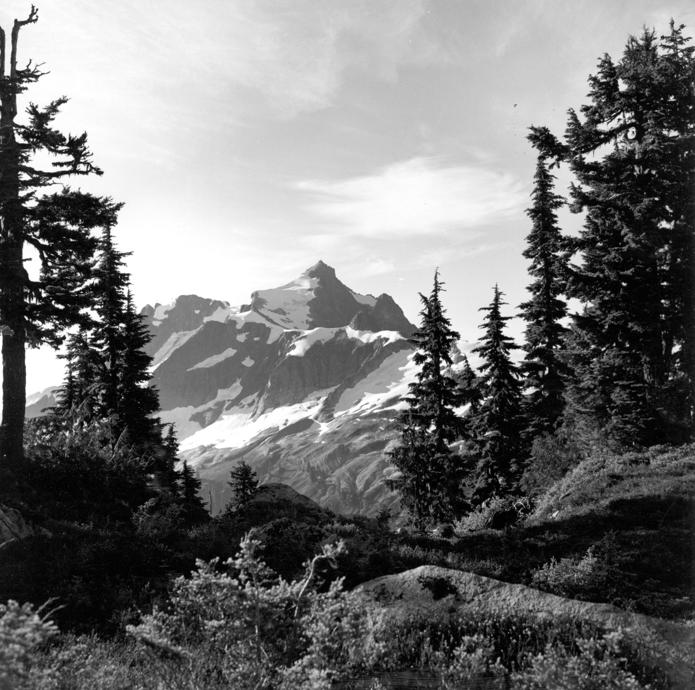 North Cascades National Park, Washington, USA. Mount Despair forms a jagged horn. Circa 1967. Figure 16-B, United States Geological Survey Bulletin 1359. Photograph by M.H. Staatz, USGS. source